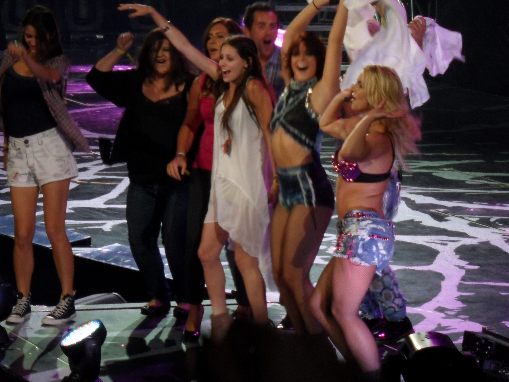 Spears performing "I Wanna Go" with members of the audience.